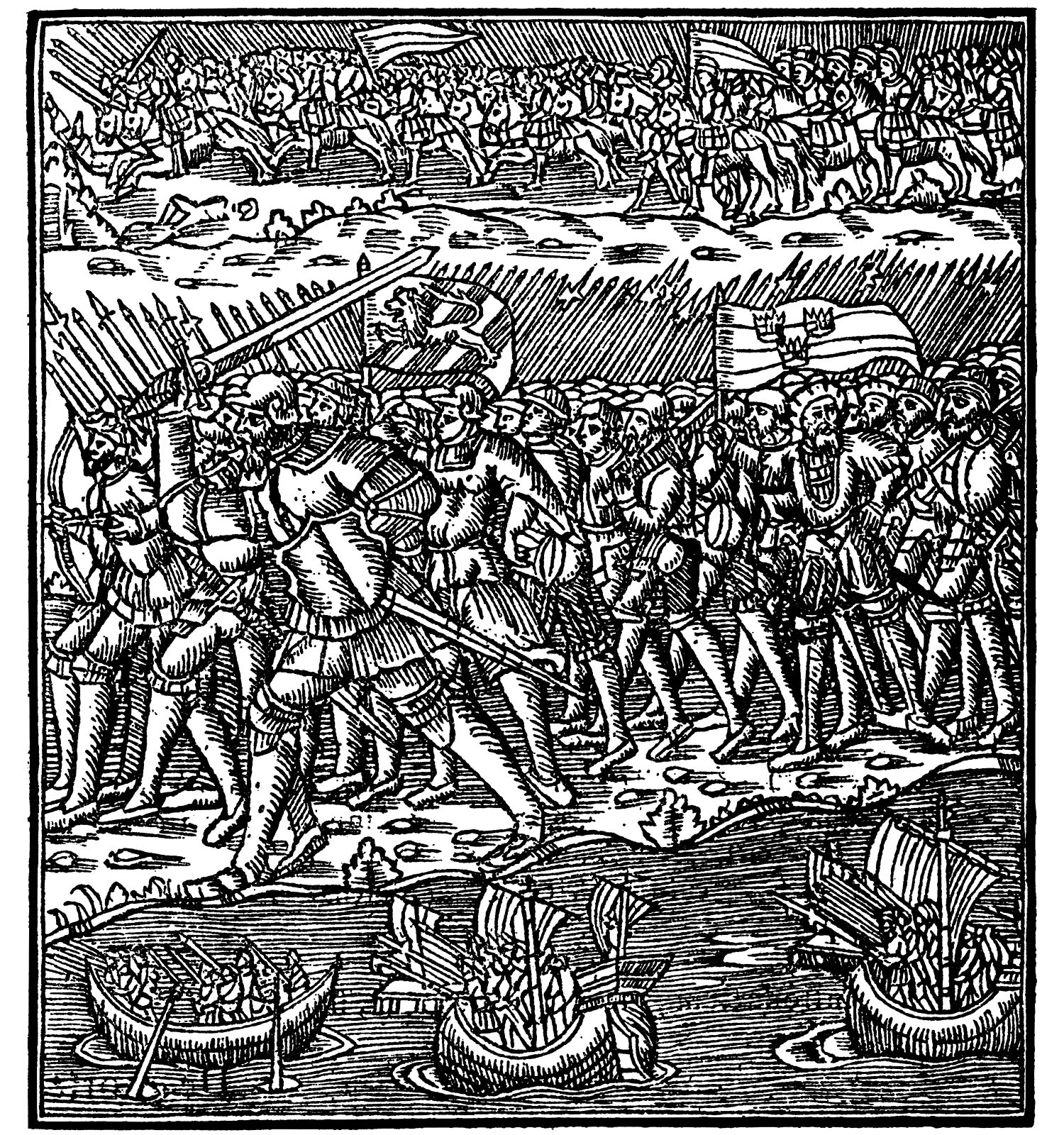 In the right part of the woodcut Starkaðr leads the Swedish forces to victory with a lifted broadsword in one hand. The flags with the Lion of Göta and the Three Crowns are flying high. An archer is seen forward of Starkaðr. From Olaus Magnus' "Historia de gentibus septentrionalibus".